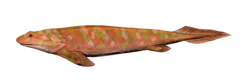 Panderichthys a sarcopterygian fish from the late Devonian of Latvia, pencil drawing